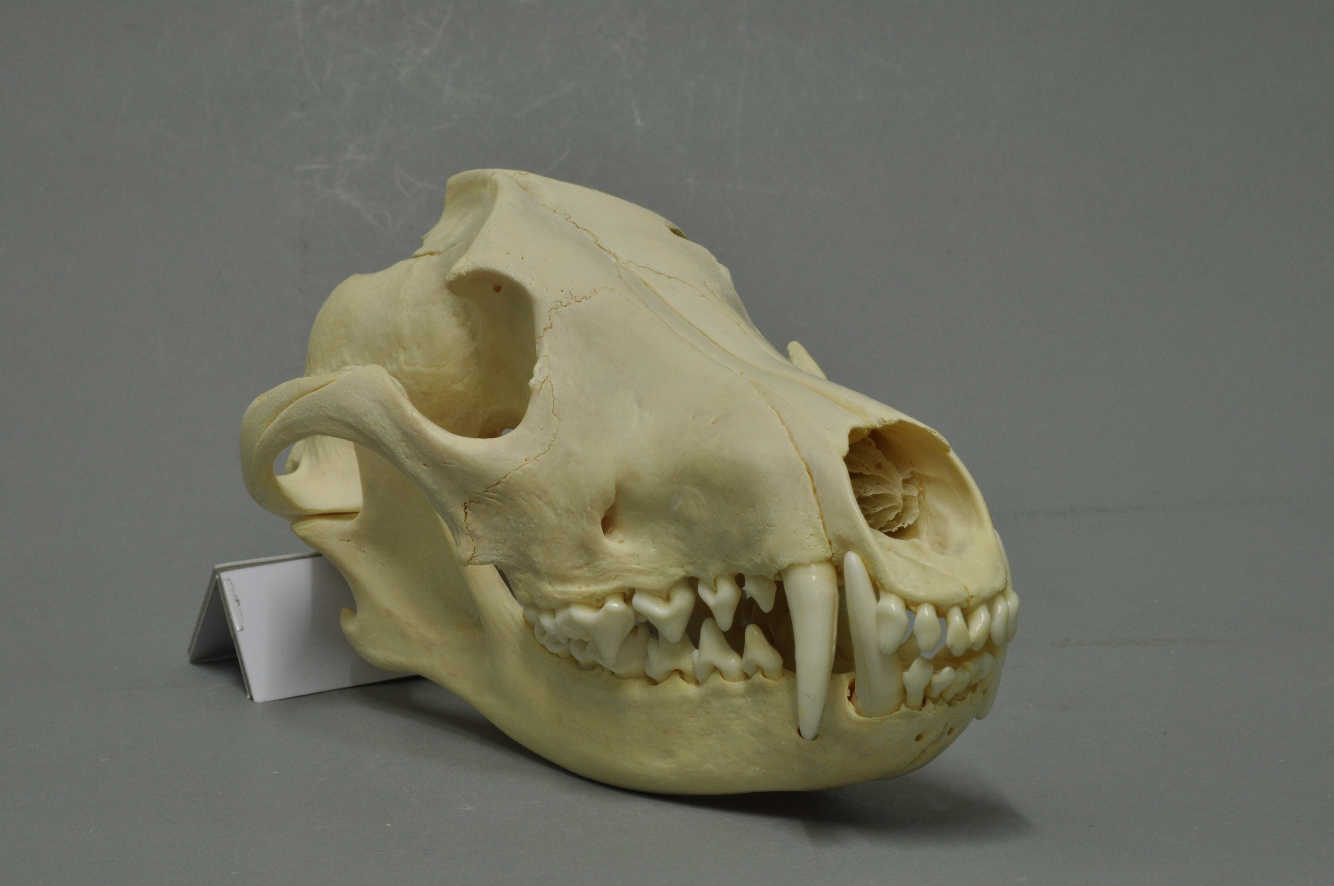 Maned wolf Chrysocyon brachyurus, skull, Coll. Museum Wiesbaden